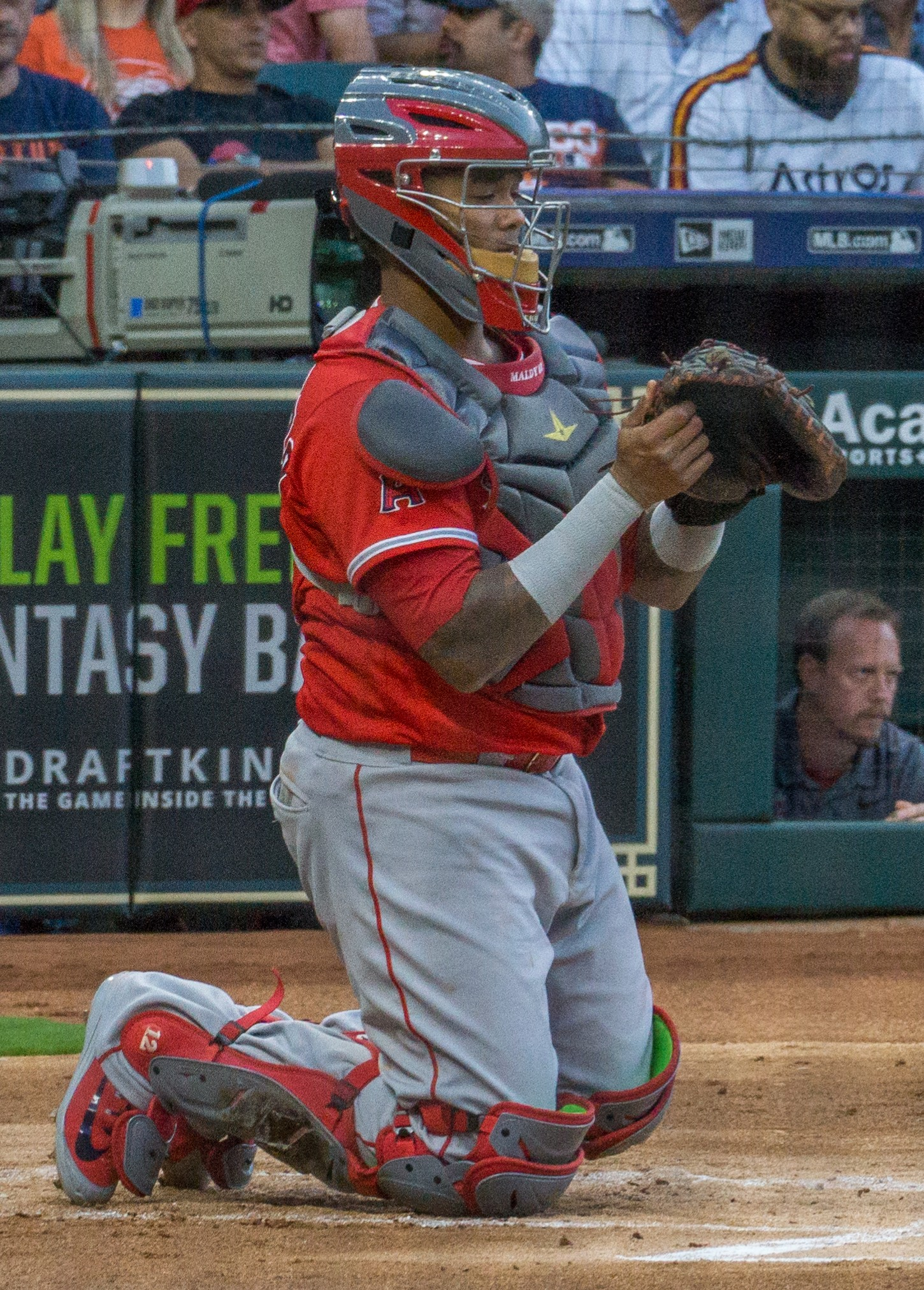 Martin Maldonado Angels 2018